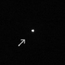 Asteroid 2685 Masursky, imaged by the Cassini–Huygens space probe at the distance of 1.6 million kilometers on 23 January 2000.